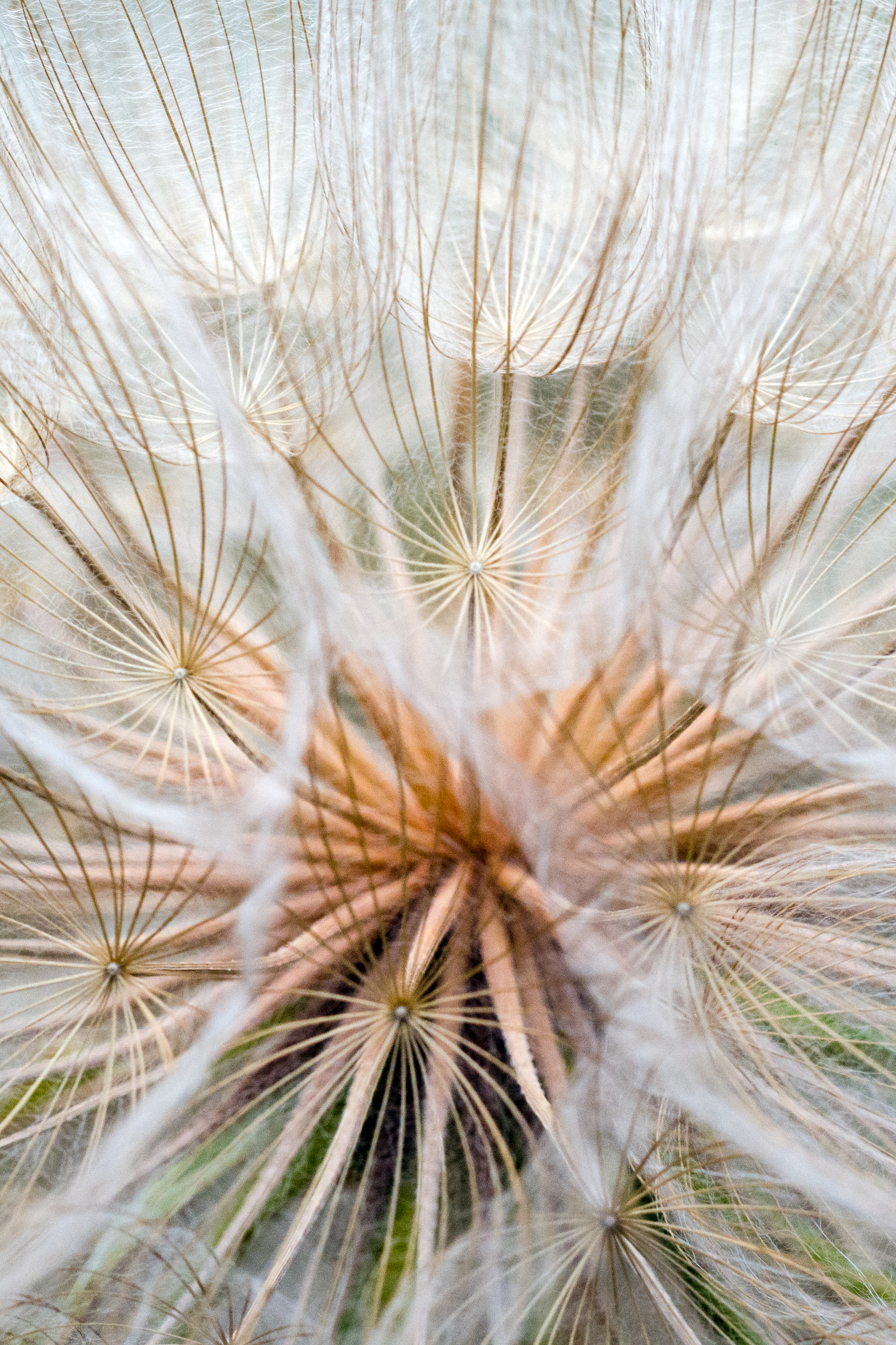 Seed head dandelion, macro photo